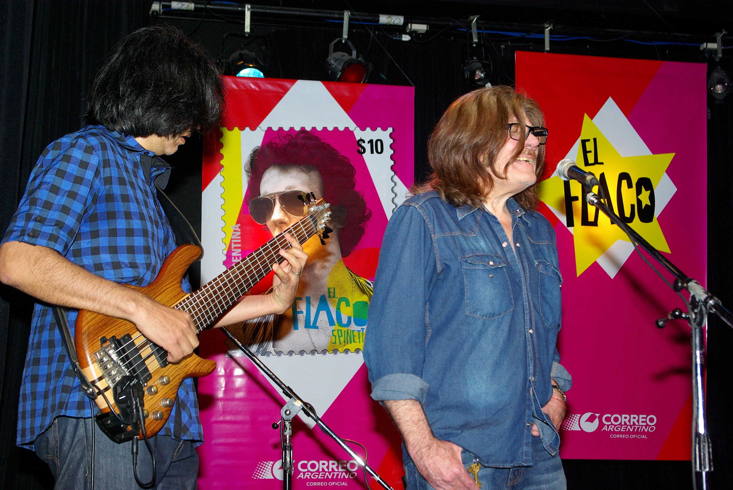 Machi Rufino, rock musician from Argentina, along with bassist Marcelo Torres, singing and playing "Enero del último día", a Luis Alberto Spinetta song, at a tribute concert to Spinetta, organized by AM 750 & Correo Argentino on October 7th, 2014.